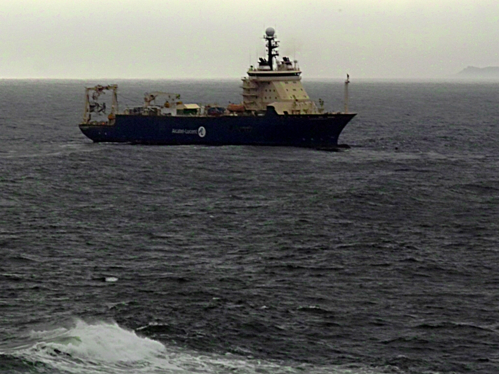 Île de Bréhat, cable laying ship installing West African Cable Systen (WACS) fibre off coast of South Africa at Yzerfontein, 70km north of Cape Town, April 2011.